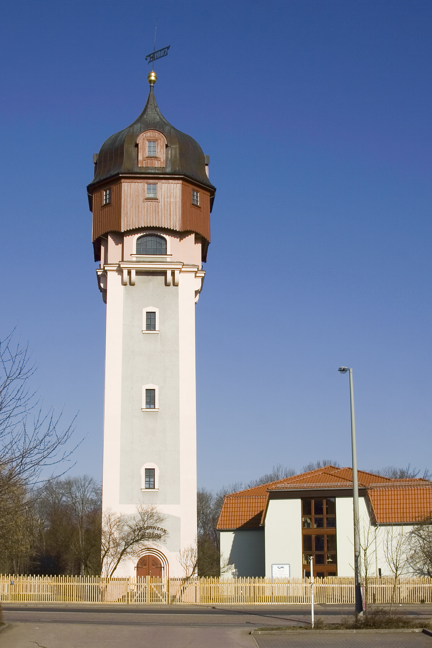 Freiberg, water tower